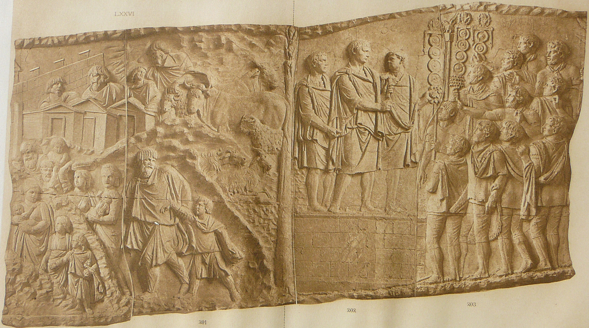 Departure of native population (scene LXXVI); Trajan's final address to his troops (scene LXXVII)